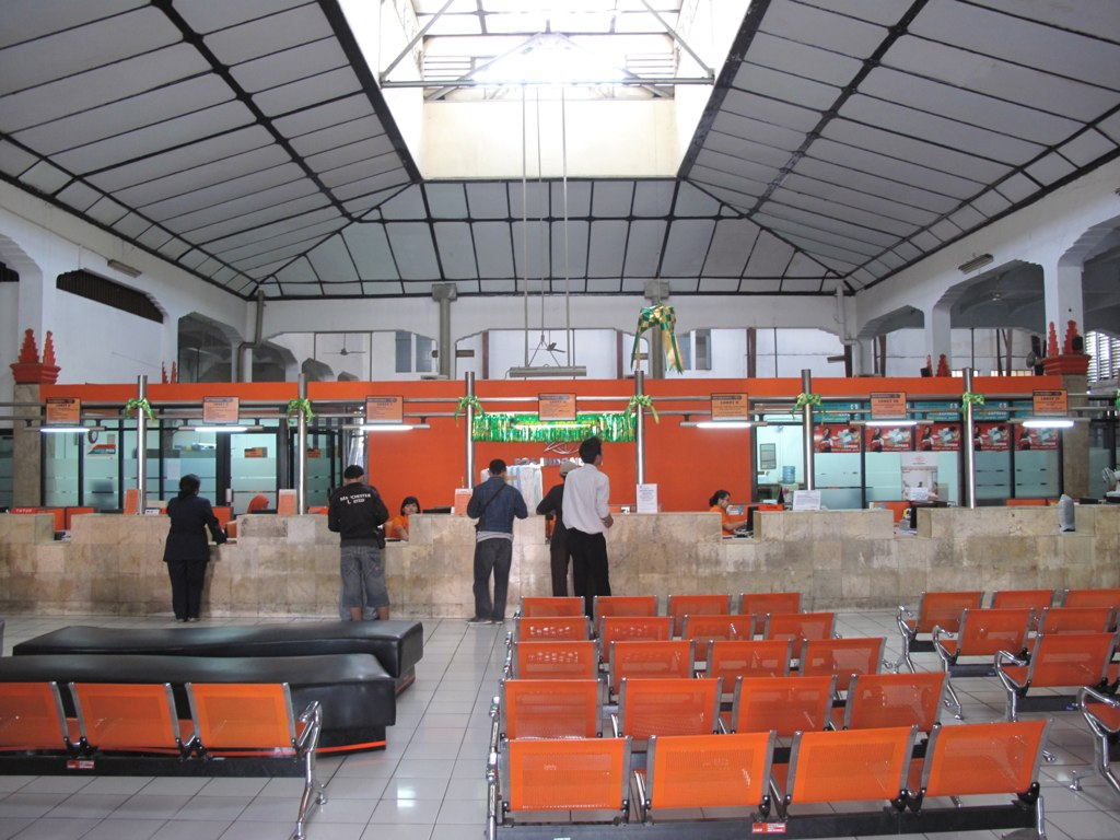 Fatahillah Post Office or Jakarta Old City Post Office, Jl. Kali Besar Timur, Jakarta. The Jakarta History Museum is nearby.